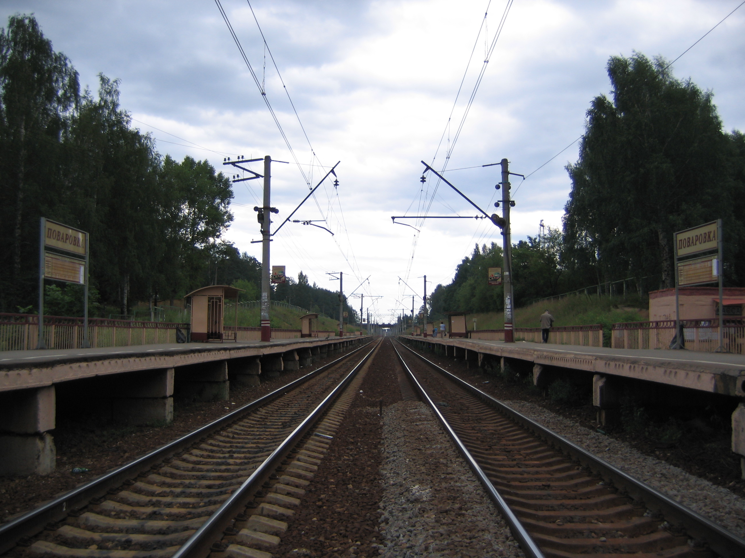 Povarovka railway station in Povarovka, Moscow region, Russia